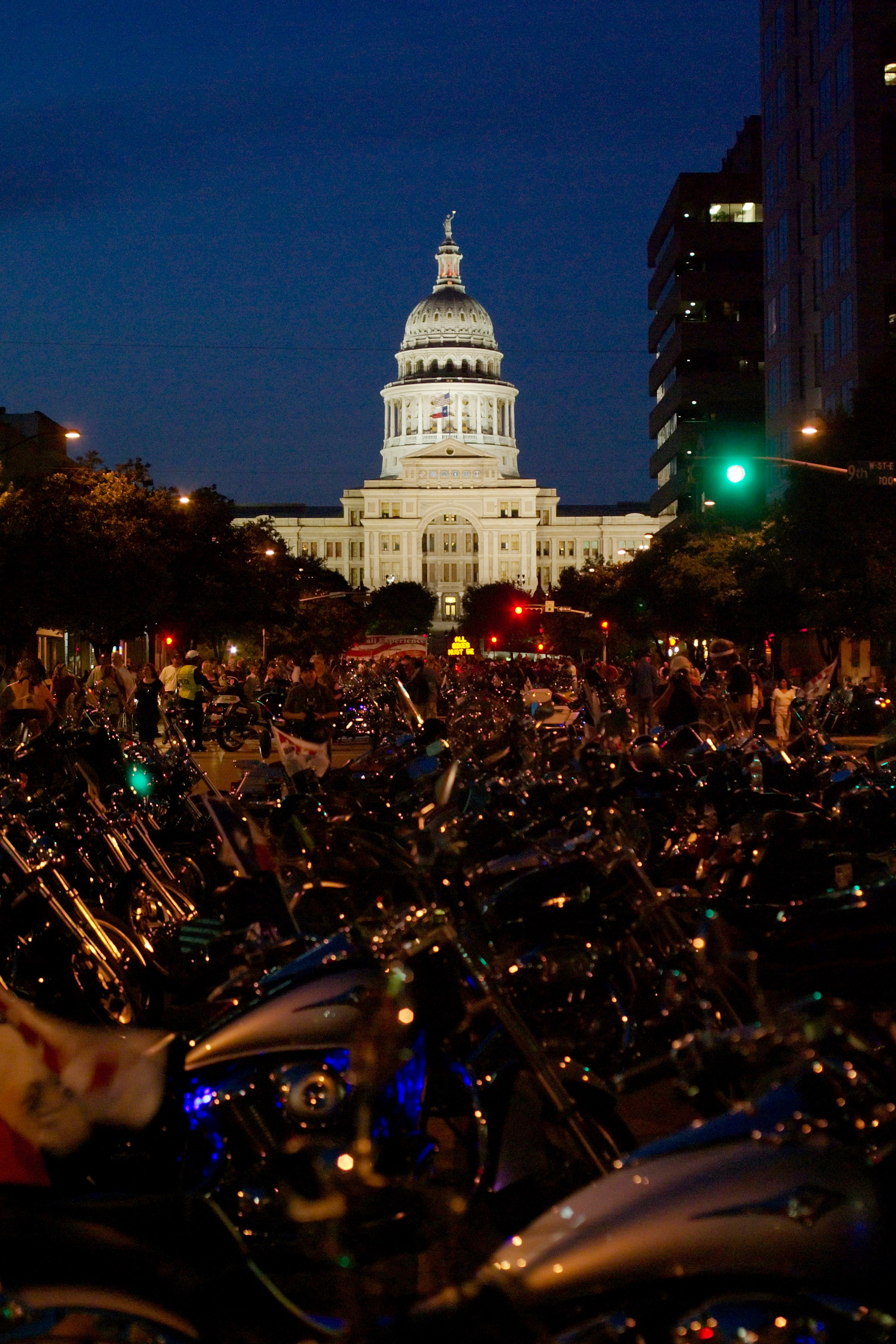 Republic of Texas Biker Rally. There was about 5 blocks of densely packed motorcycles.